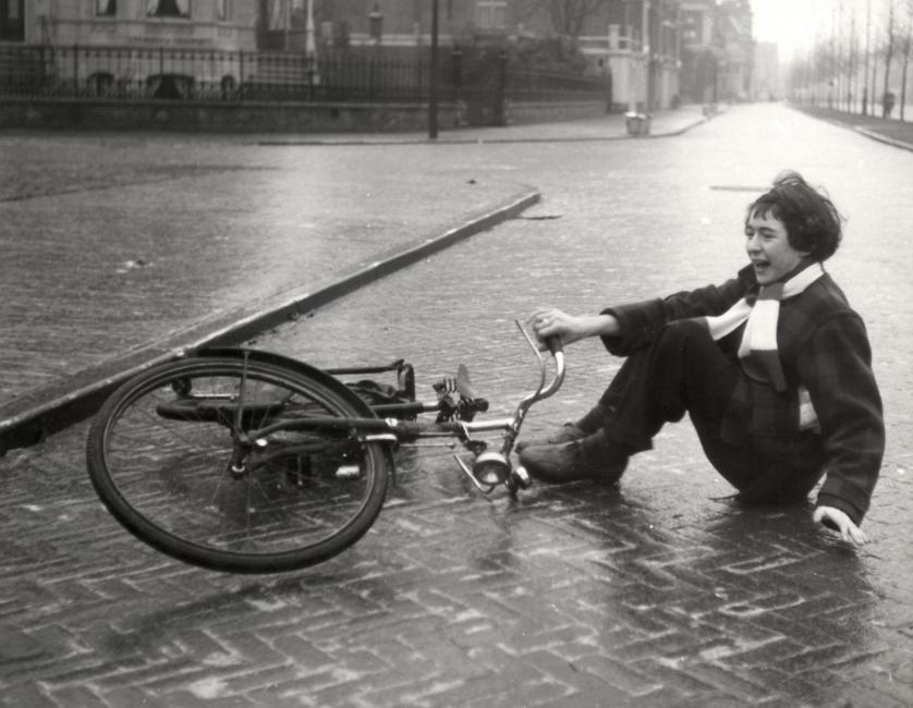 Fall. A girl has fallen off her bike on a slippery road (ice). Haarlem, Netherlands, December 11, 1952.You can help us gain more knowledge on the content of our collection by simply adding a comment with information. If you do not wish to log in, you can write an e-mail to: .